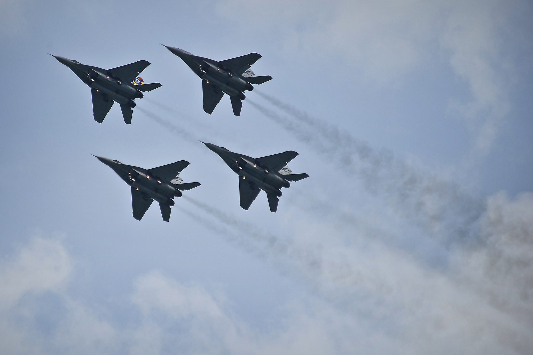 Changi, Singapore -- A four ship of MiG-29 aircraft from the Royal Malaysian Air Force(RMAF) aerobatic display team the "Smokey Bandits" perform during the 2012 Singapore Airshow on Feb. 15, 2012. The RMAF feature the worlds only female MiG-29 pilot, Maj. Patricia Yapp Syau Yin. (Department of Defense photo by U.S. Air Force Tech. Sgt. Michael R. Holzworth/Released)